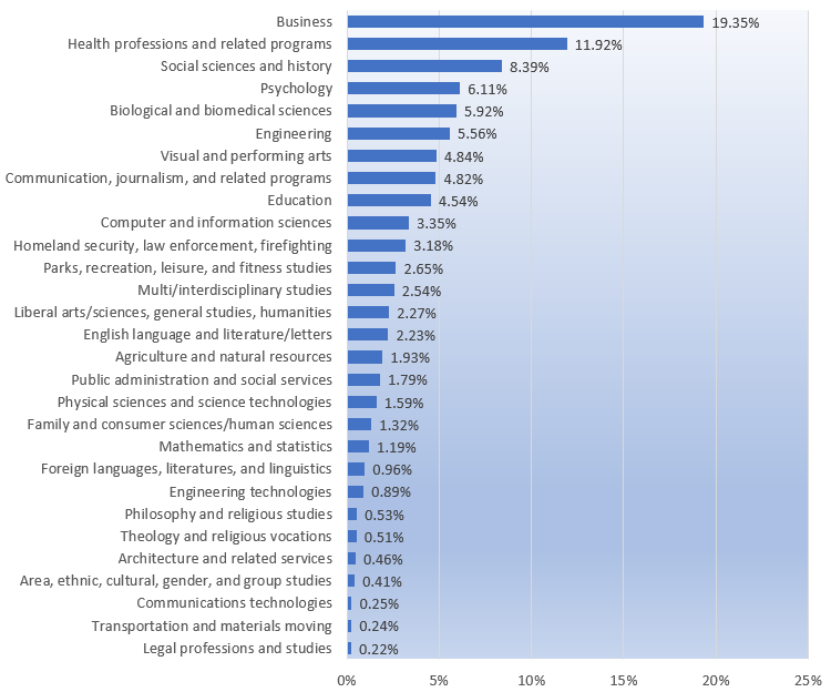 data majors with less than 0.1% are not included: Precision production, Library science, and Military technologies and applied sciences